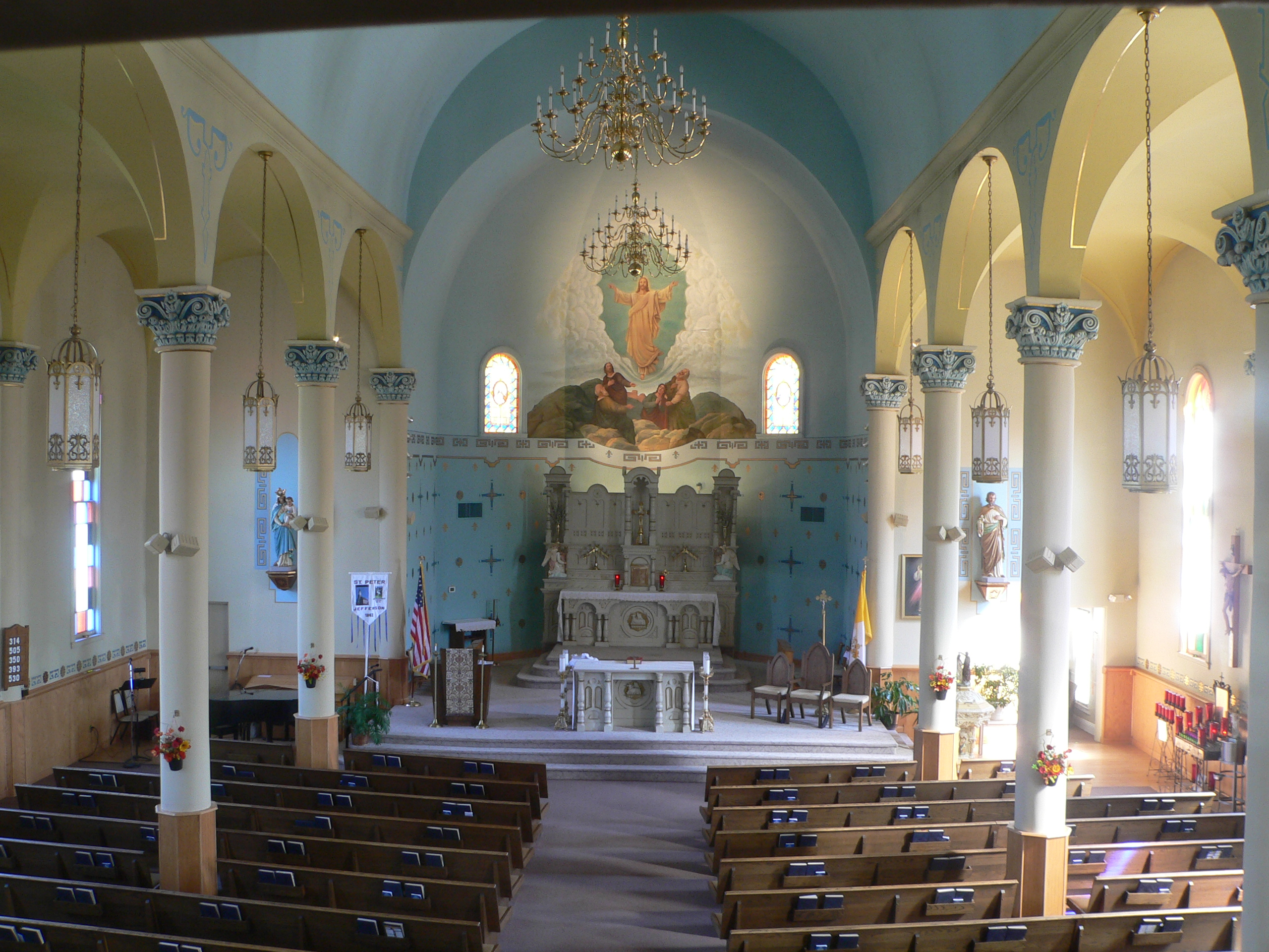 Interior of St. Peter's Catholic Church in Jefferson, South Dakota. Camera is facing northeast from the choir loft.